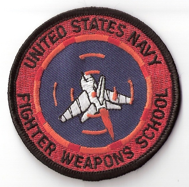 Navy Fighter Weapons School (Topgun) patch as worn by graduates & Instructors.